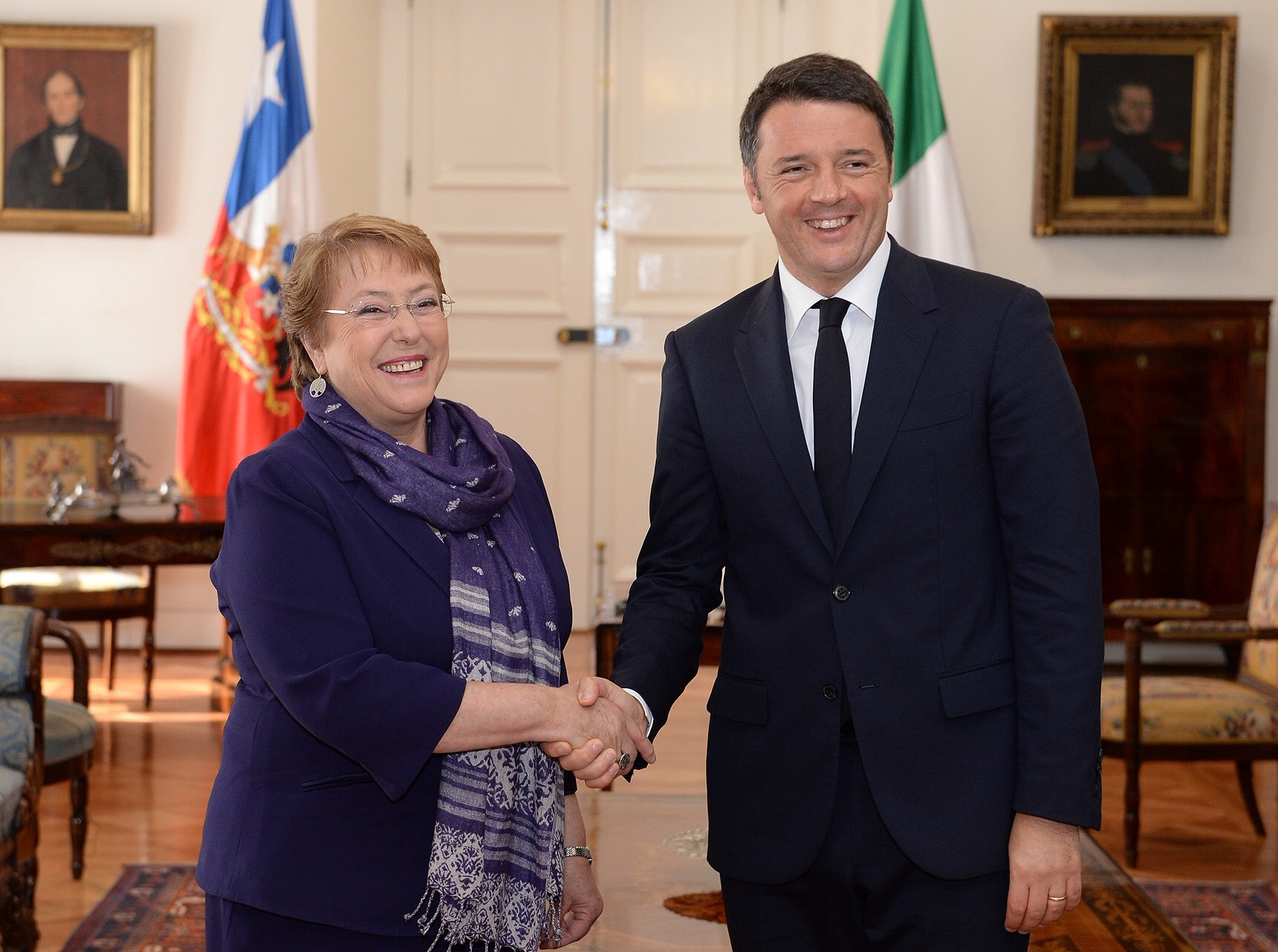 Matteo Renzi and Michelle Bachelet